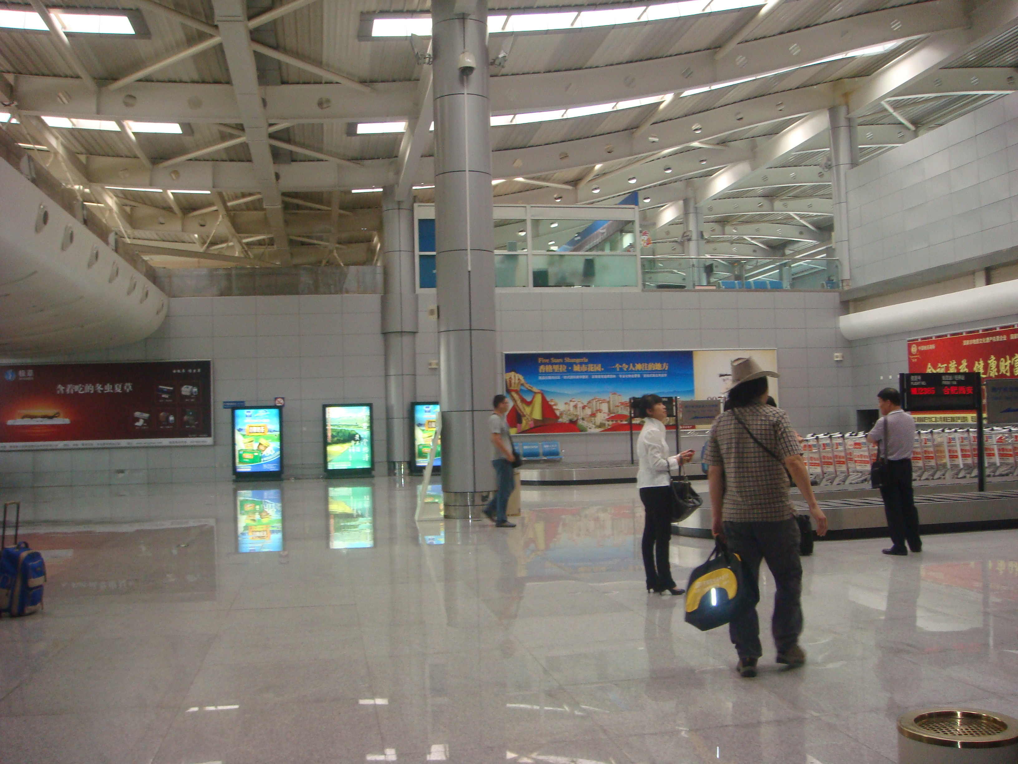 In 2011, the arrival area of Xining Caojiabao Airport